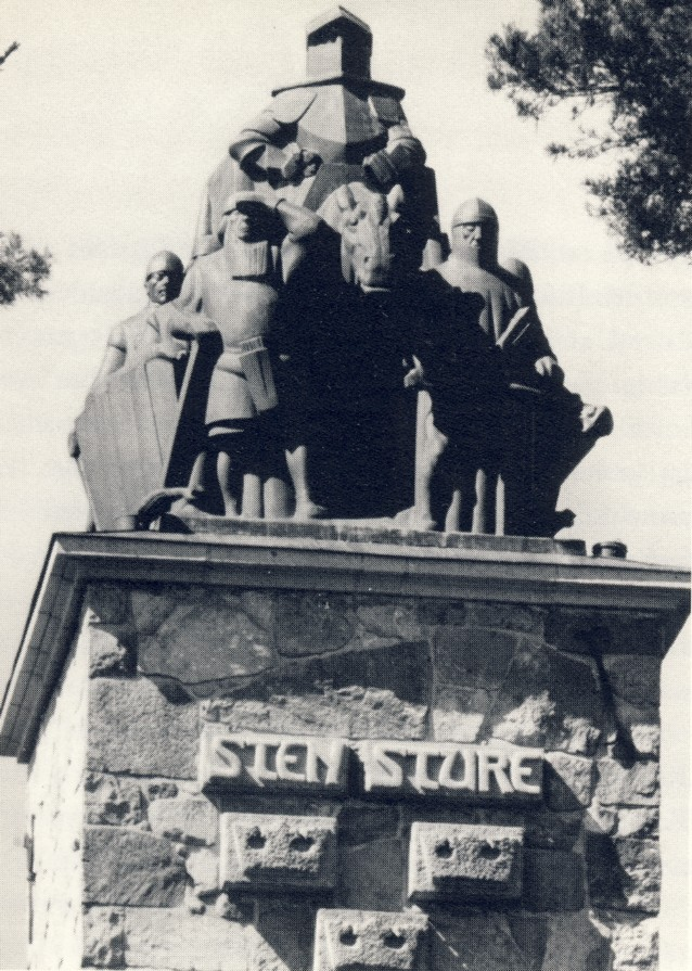 Sten Sturemonumentet i Uppsala